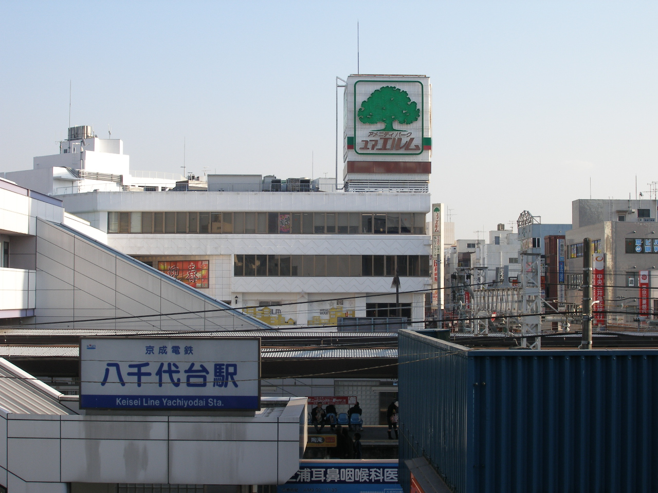 Yachiyodai Station west entrance and the shopping mall "Your Elm"